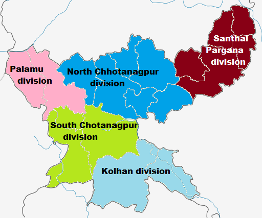 Administrative divisions of Jharkhand